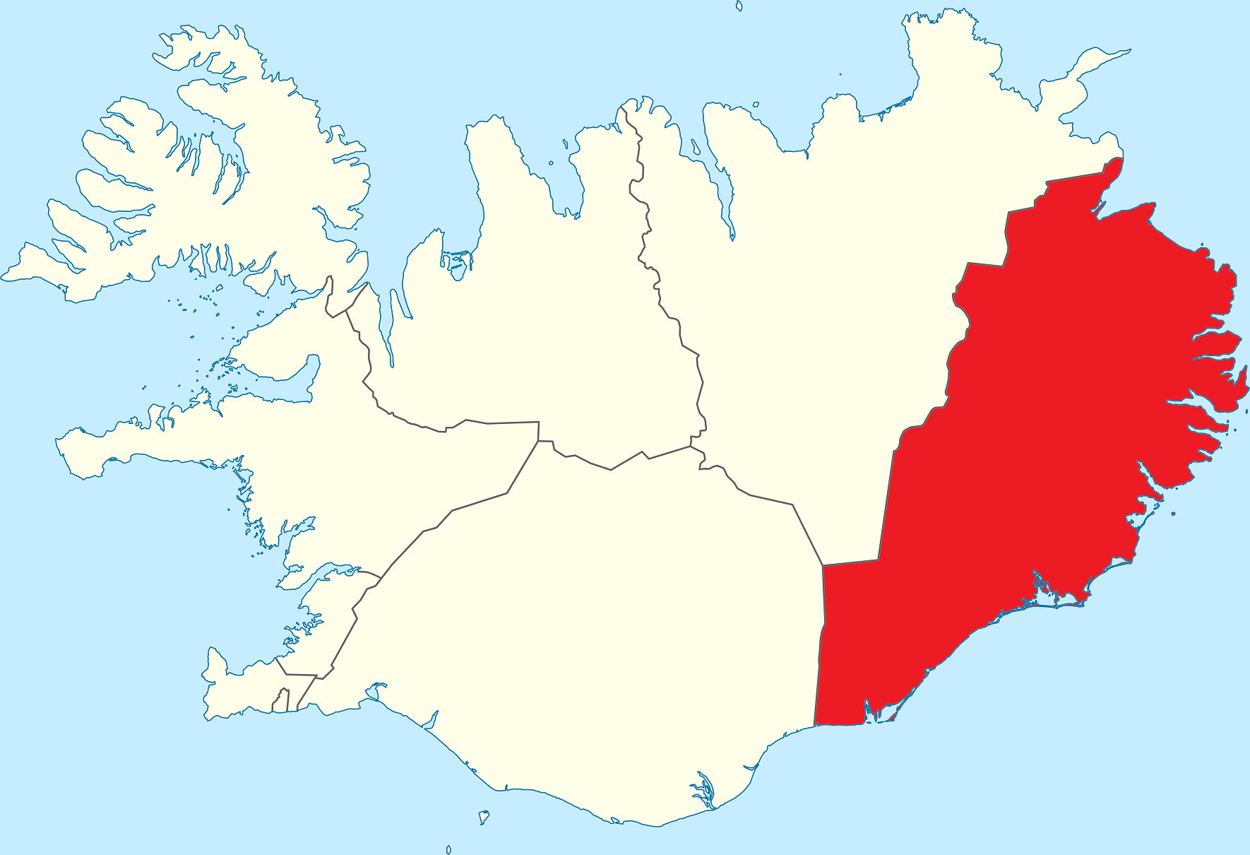 Region highlighted within Iceland as a whole.